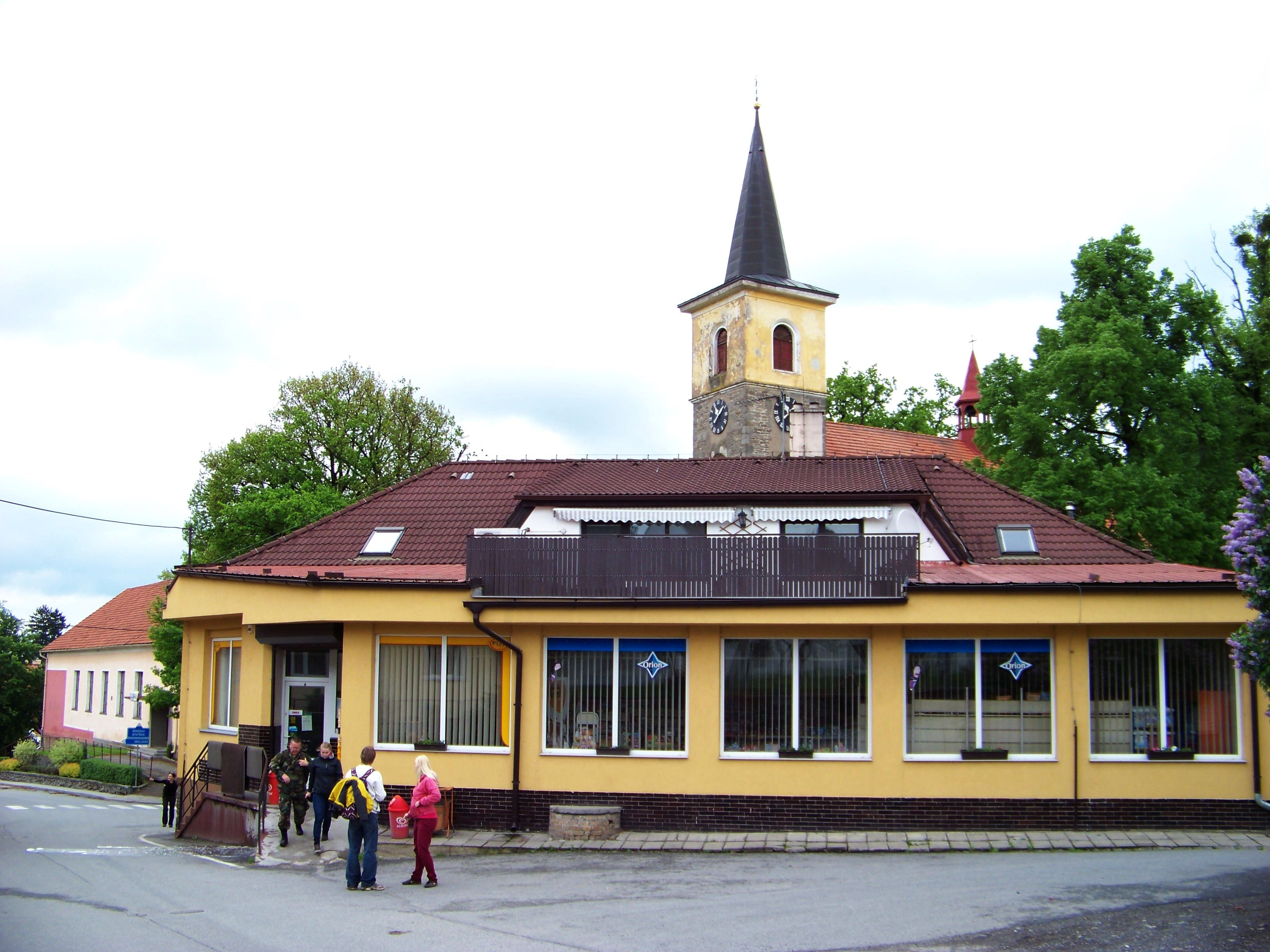 Vrchotovy Janovice, Benešov District, Central Bohemian Region, the Czech Republic. A shop and Saint Martin Church. - OpenStreetMap (Info)